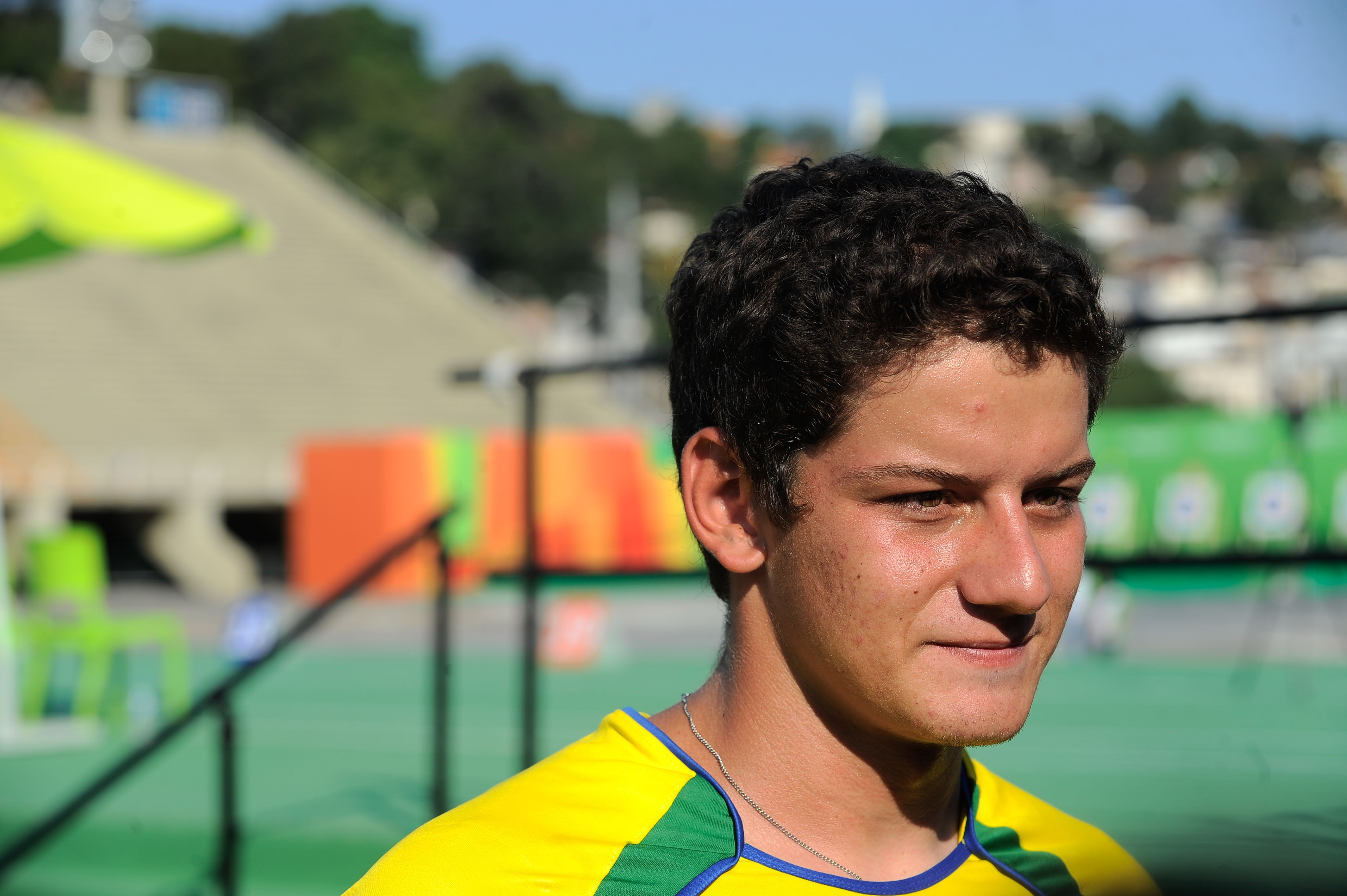 Marcus Vinícius D'Almeida - Photo by Fernando Frazão/Agência Brasil CCBY3.0